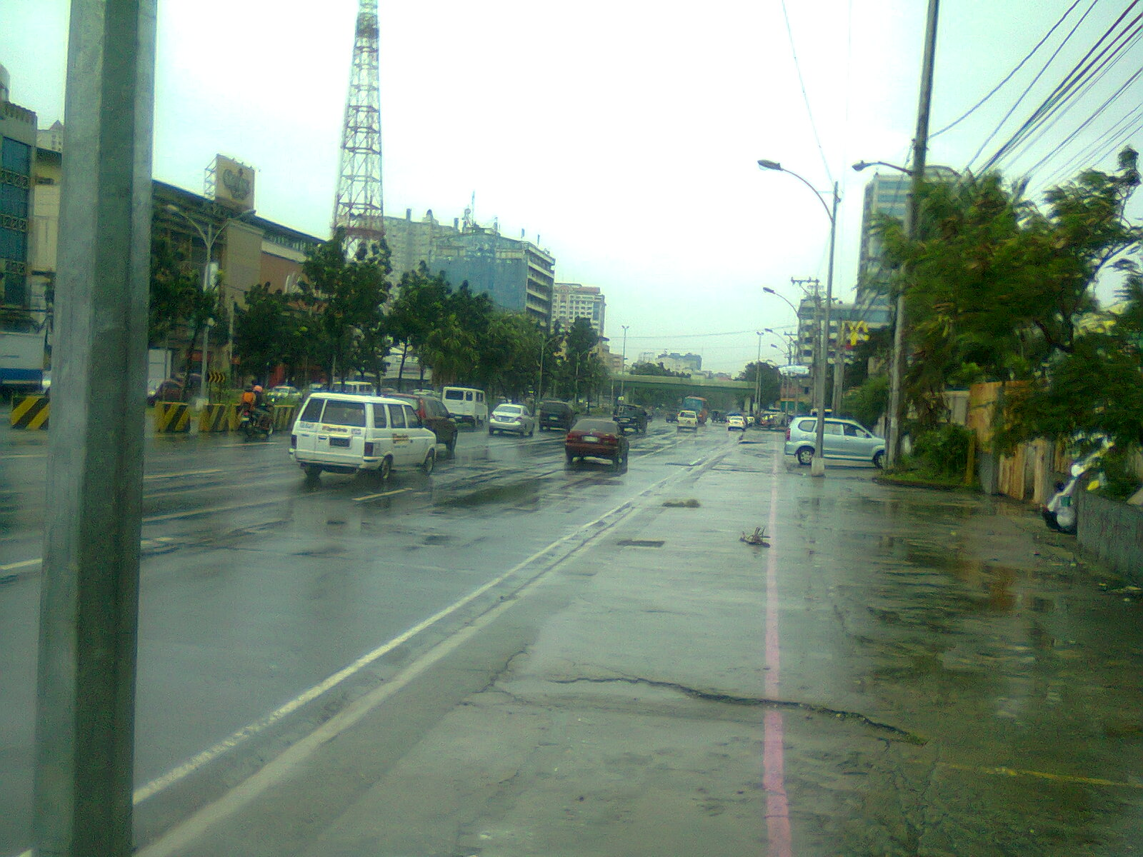 Quezon Avenue looking southwest